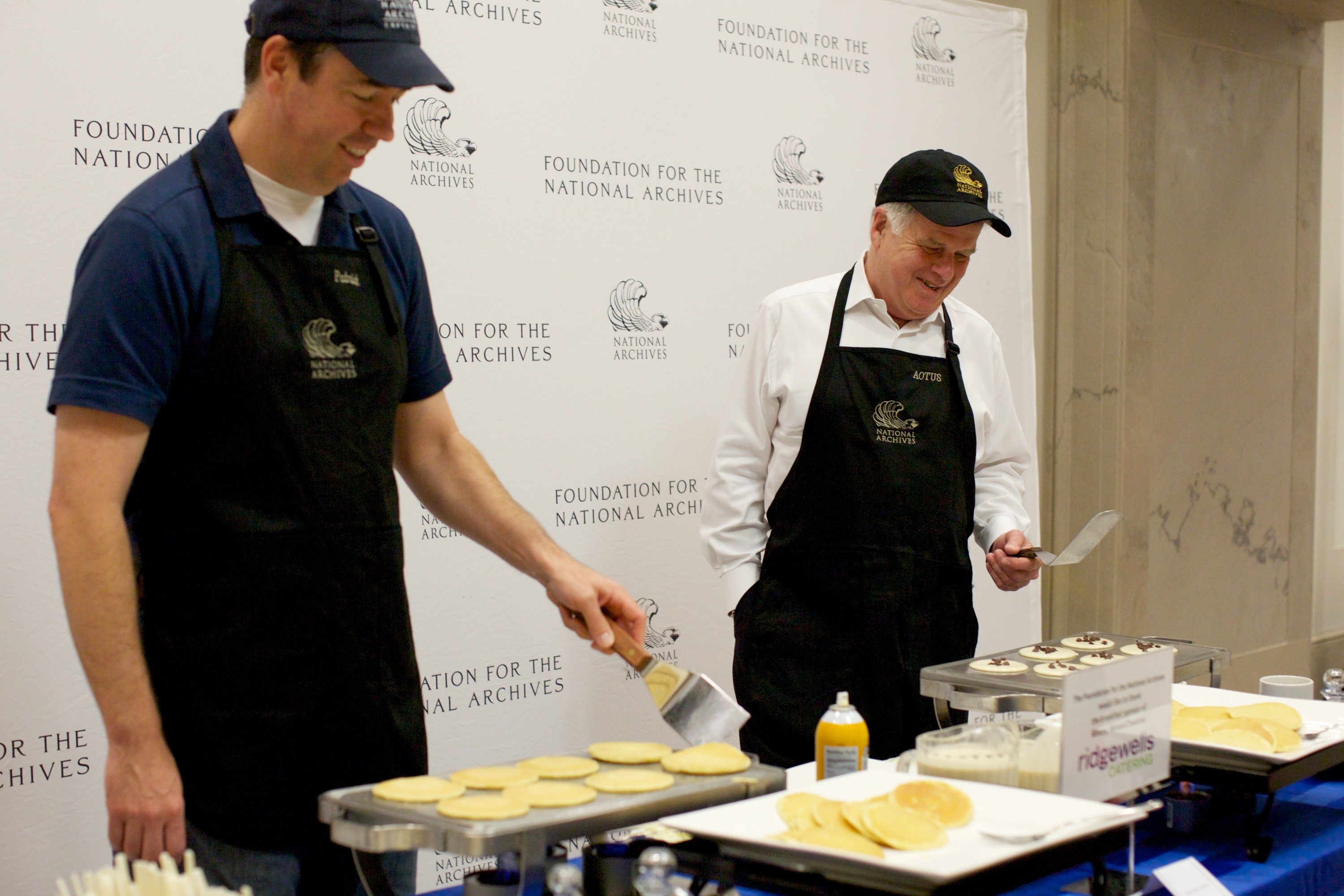 Archives Sleepover; Photo by Jef Reed